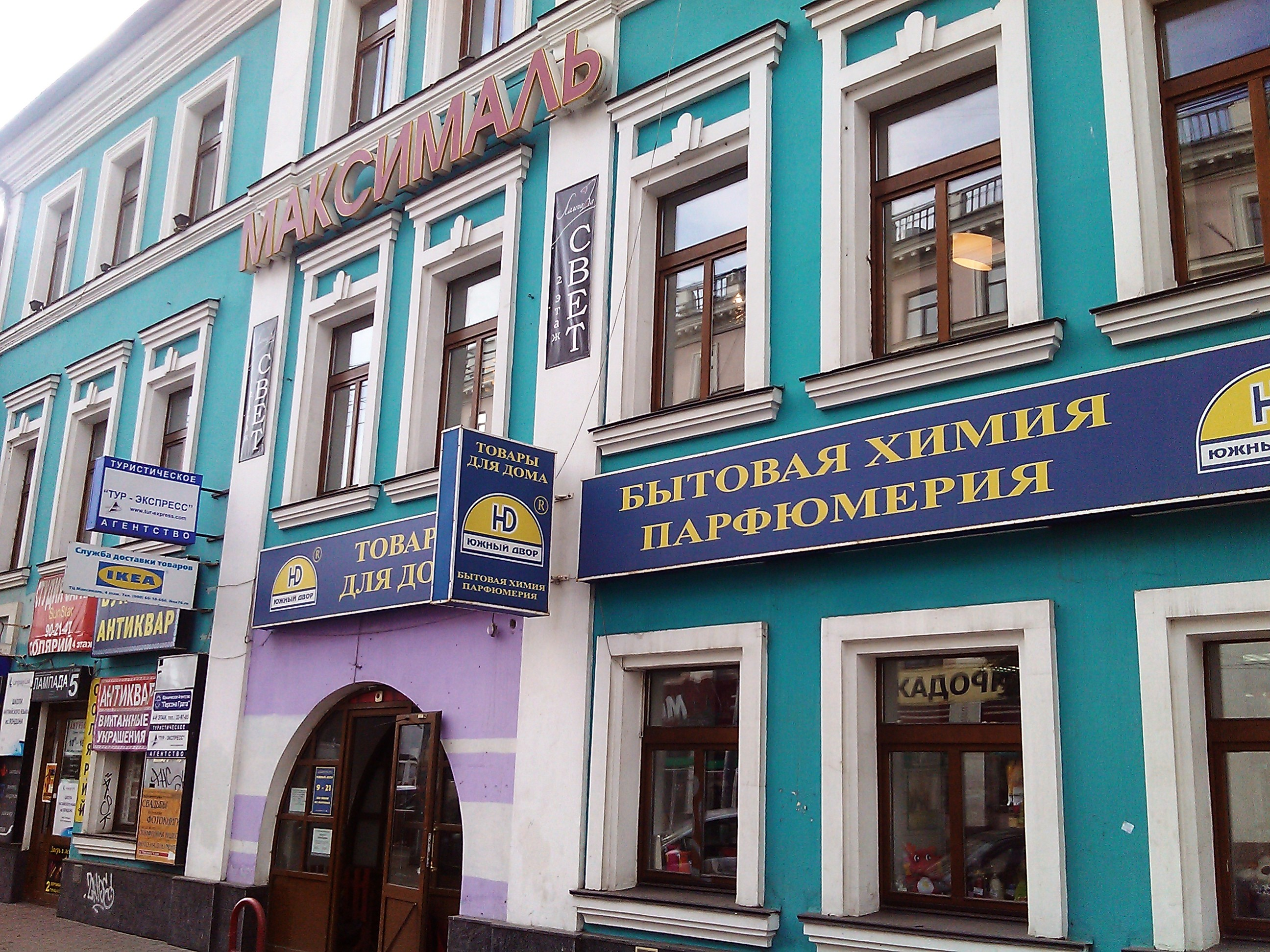 Former Shokhin-Marker house with shops